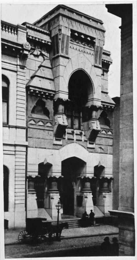 Provident Life & Trust Company Building in an old photograph (c. 1879-80)